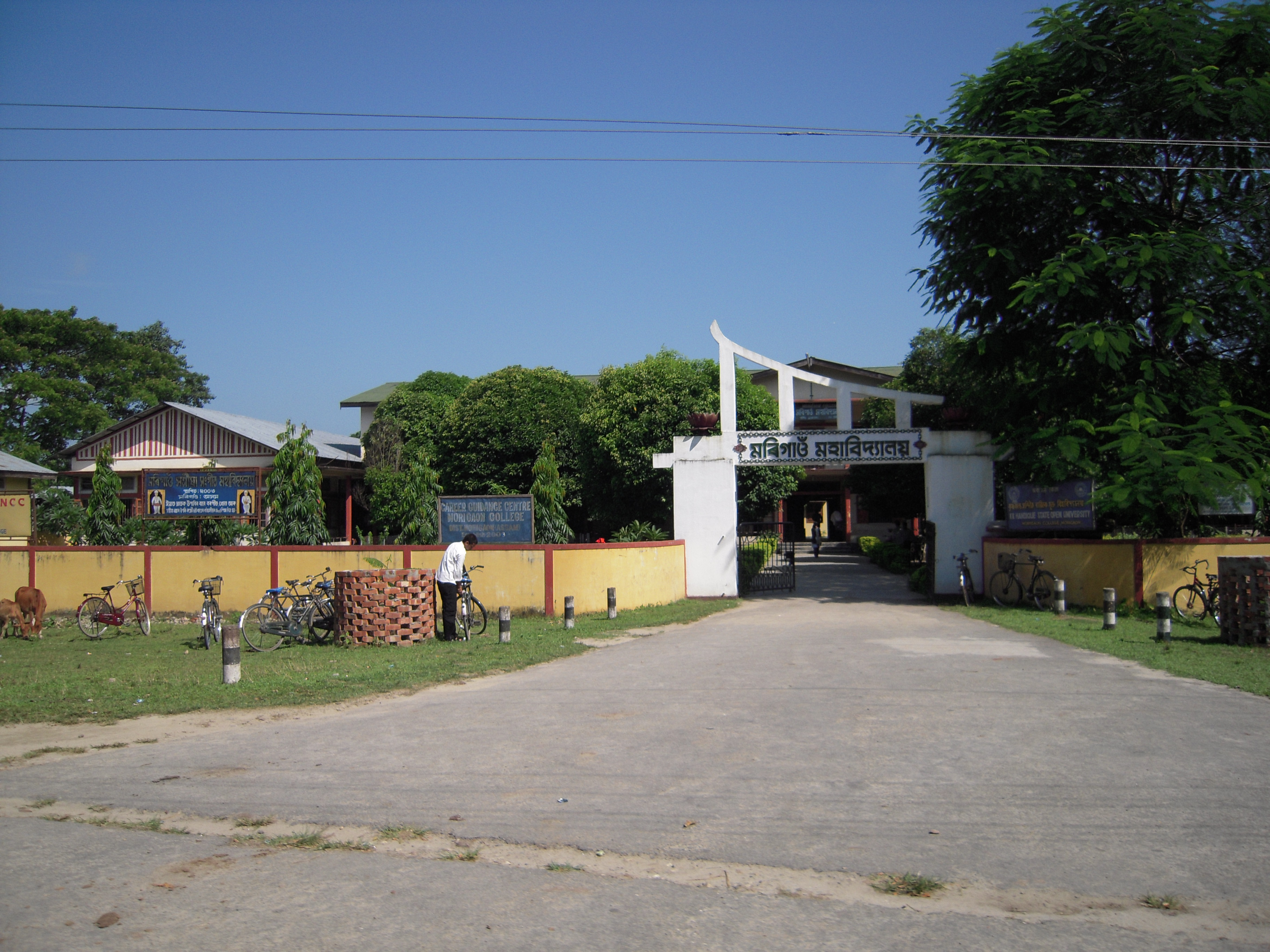 Morigaon College, Morigaon